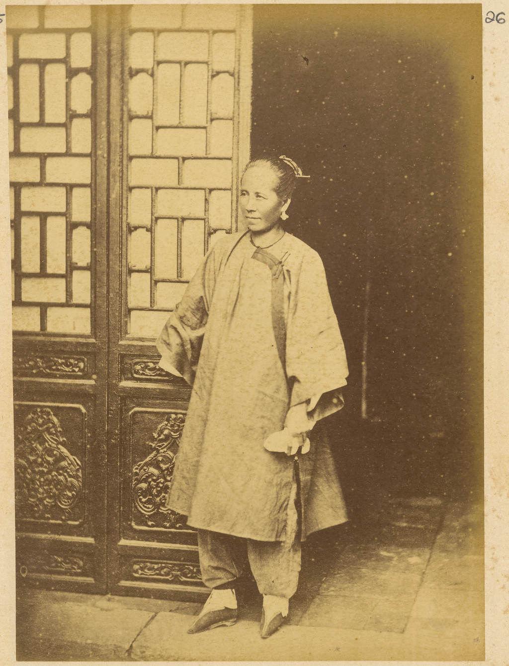 In 1874-75, the Russian government sent a research and trading mission to China to seek out new overland routes to the Chinese market, report on prospects for increased commerce and locations for consulates and factories, and gather information about the Dungan Revolt then raging in parts of western China. Led by Lieutenant Colonel Iulian A. Sosnovskii of the army General Staff, the nine-man mission included a topographer, Captain Matusovskii; a scientific officer, Dr. Pavel Iakovlevich Piasetskii; Chinese and Russian interpreters; three non-commissioned Cossack soldiers; and the mission photographer, Adolf Erazmovich Boiarskii. The mission proceeded from Saint Petersburg to Shanghai via Ulan Bator (Mongolia), Beijing, and Tianjin, and then followed a route along the Yangtze River, along the Great Silk Road through the Hami oasis, to Lake Zaysan, back to Russia. Boiarskii took some 200 photographs, which constitute a unique resource for the study of China in this period. Most of the photographs are included in this album, which later became part of the Thereza Christina Maria Collection assembled by Emperor Pedro II of Brazil and given by him to the National Library of Brazil. Chinese; Deformities, Artificial; Footbinding; Household employees; Memory of the World; Women